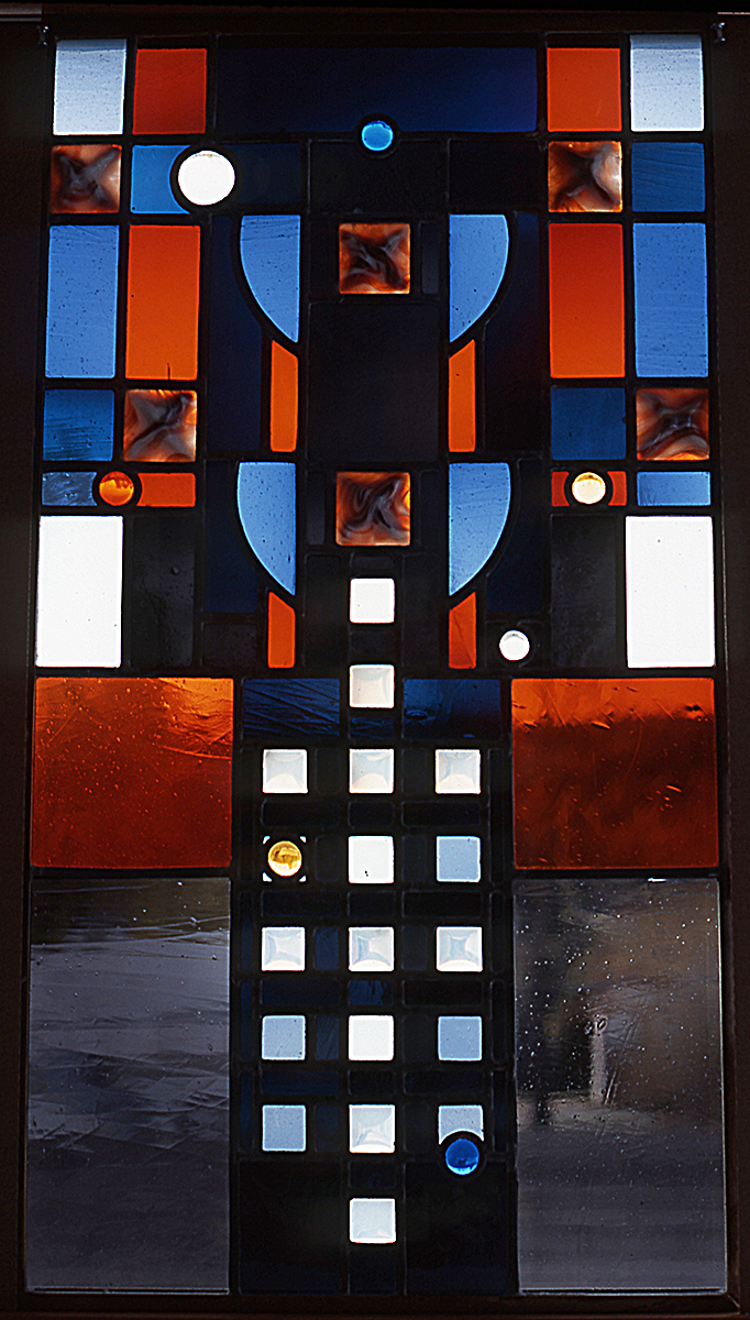 Stained Glass Autonomous Panel.